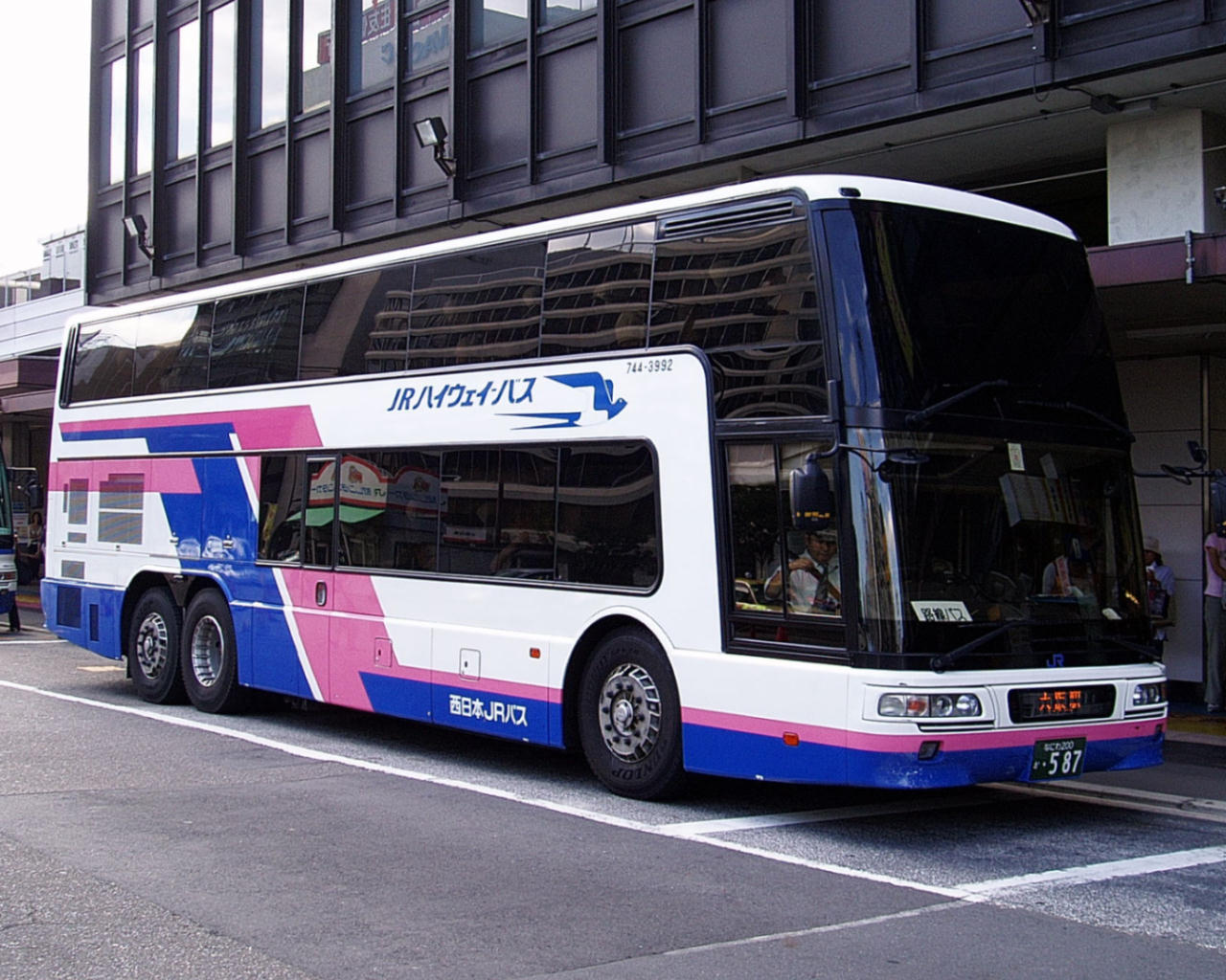 Nishinihon JR Bus 744-3992 Mitsubishi KL-MU612TX at Tokyo Sta.